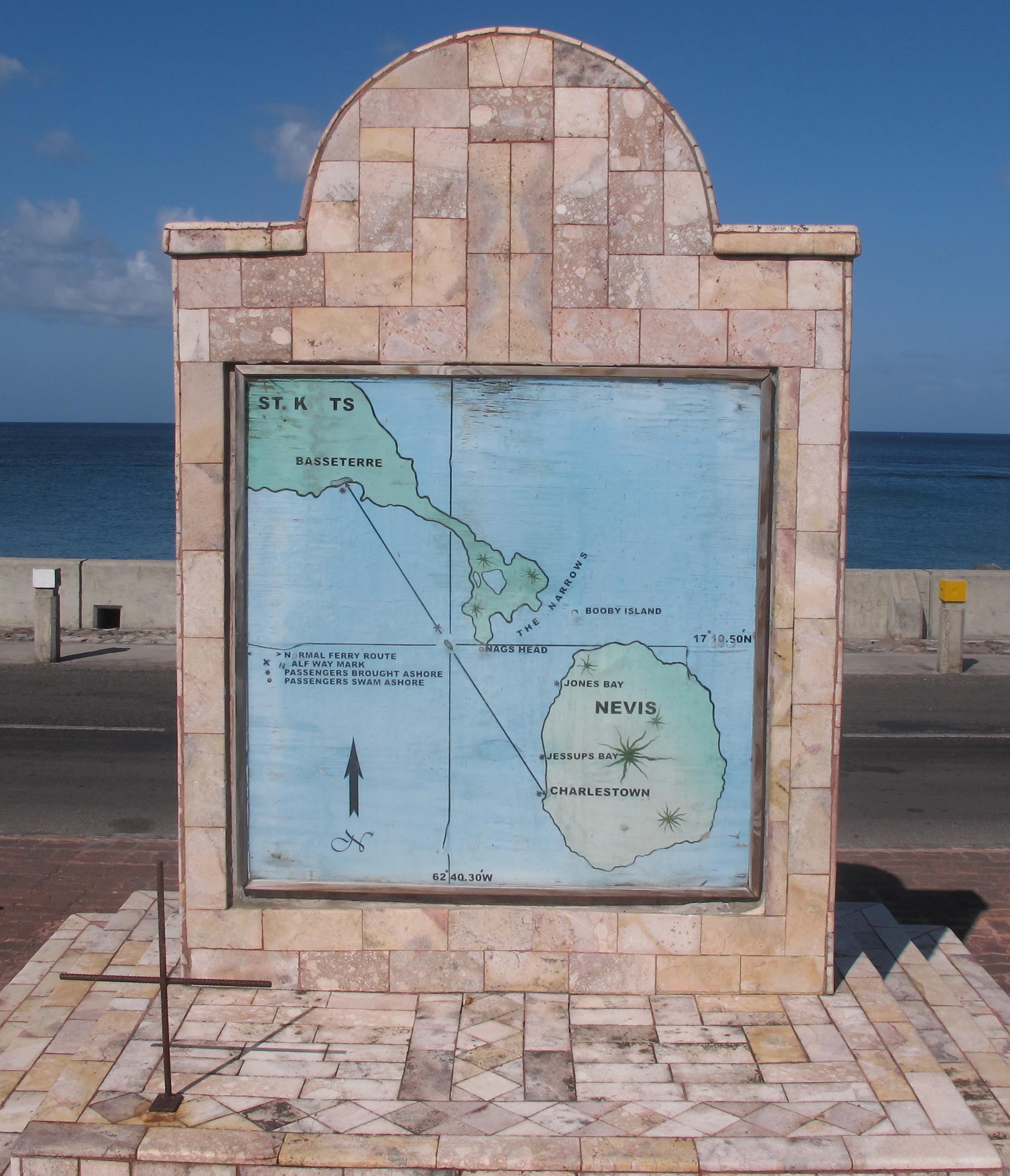 Facing towards the sea, the Christena Memorial includes a map of the route the ferryboat was taking between St. Kitts and Nevis.